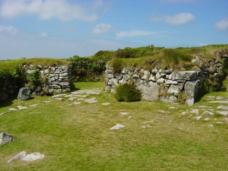 Room within Chysauster Ancient Village, Cornwall, England.